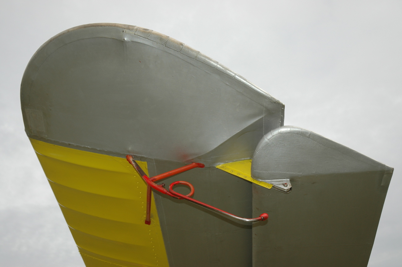 R-26SU Góbé'82 trainer glider (reg. HA-5506)